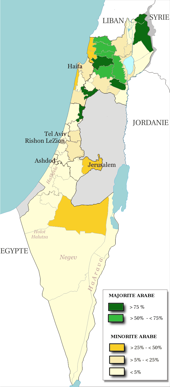 Map of the officials 50 "natural regions" of Israel, with their proportions of arab population. The map includ the Golan heights and east Jerusalem, two areas annexed by Israel, annexions not recognize by UNO. The map is based on the demographic situation 2000, and is based upon the arab population in Israel [PDF], a publication (Statistilite N°27) of the israeli Center Bureau of Statistics (CBS) diffused in november 2002.